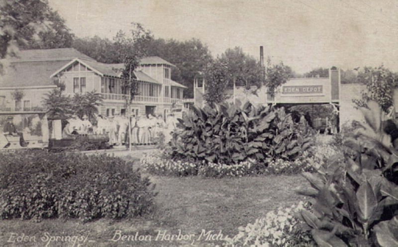 Image of House of David and Eden Springs Amusement park in 1910. Miniature railroad depot can be seen in the background.